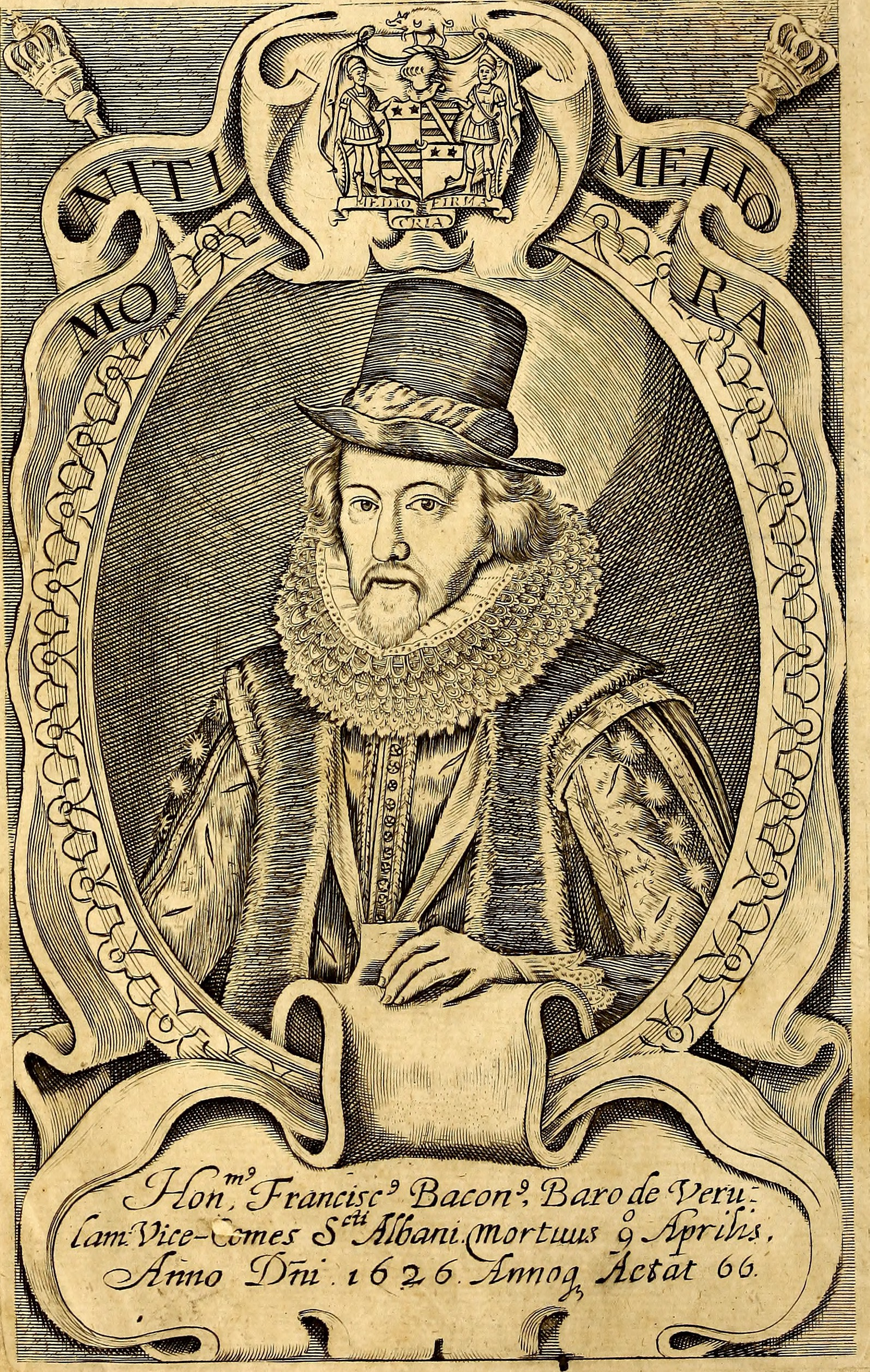 Title: Sylva sylvarum; or, A natural history. In ten centuries; whereunto is newly added the History natural and experimental of life and death, or of the prolongation of life Year: 1670 (1670s) Authors: Bacon, Francis, 1561-1626 Rawley, William, 1588?-1667 Subjects: Natural history Publisher: London : Printed by J.R. for William Lee Text Appearing Before Image: ■ ■ ■ W. Lee. FINIS. . . ■H ^m tvmm WnH w I ^; 05i SERE tin fl 9 JgrawK WmmaSBm Text Appearing After Image: SP^y m fcl-.M&W*&*